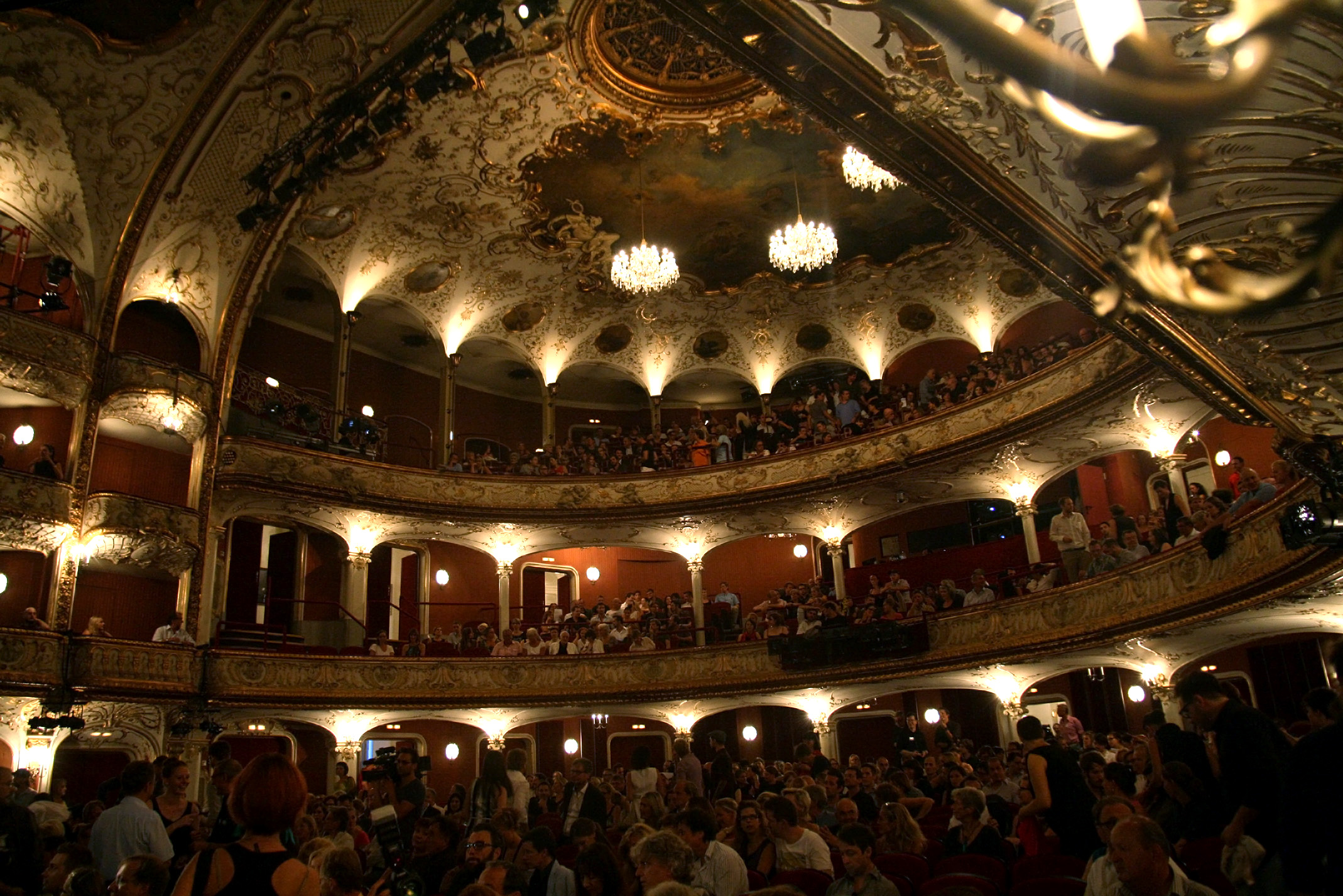 Austrian premiere of the movie 360 (Volkstheater in Vienna)